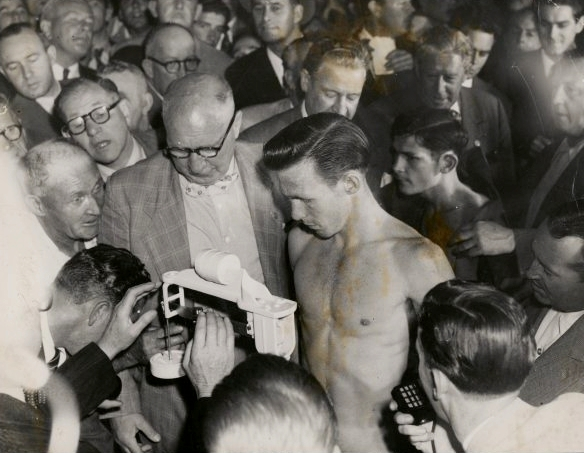 Jimmy Carruthers weighs in for his match against Henry "Pappy" Gault at the Sydney Sports Ground, New South Wales, 13 November 1953 [picture].